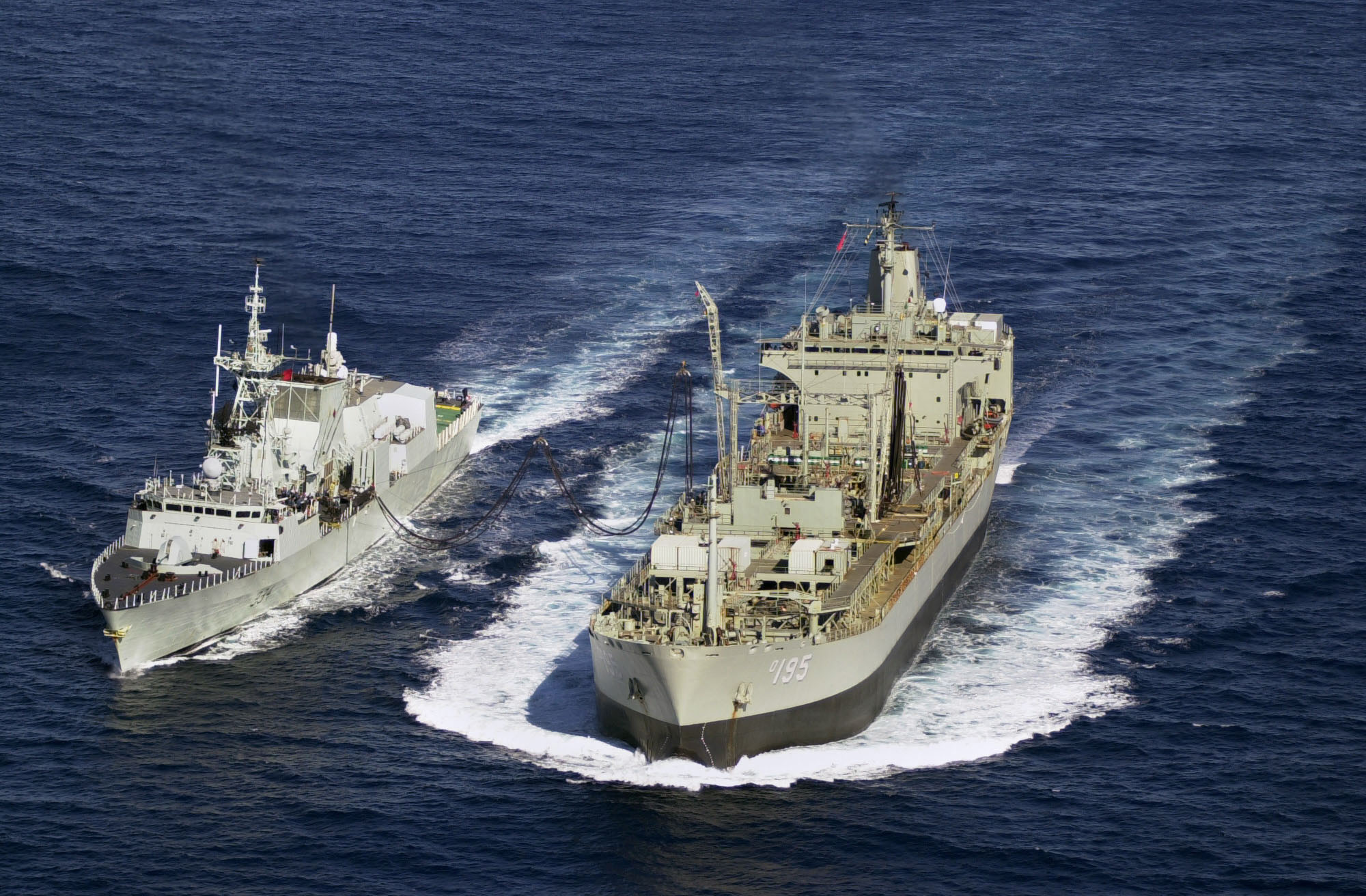 Department of Defense caption: EXERCISE TANDEM THRUST 2001, OFF THE COAST OF AUSTRALIA, -- Staying ready for battle, the Canadian frigate HMCS Regina (FFG 334) replenishes its fuel. The Australian HMAS Westralia performed the replenishment at sea with Regina and is operating with her and three other warships for Exercise Tandem Thrust. Exercise Tandem Thrust 2001 is a combined United States and Australian military training exercise. This biennial exercise is being held in the vicinity of Shoalwater Bay Training Area, Queensland, Australia. More than 27,000 Soldiers, Sailors, Airmen and Marines are participating, with Canadian units taking part as opposing forces. The purpose of Exercise Tandem Thrust is to train for crisis action planning and execution of contingency response operations.